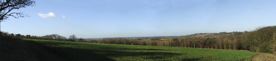 Panoramic view from Navenby in Lincolnshire, England.